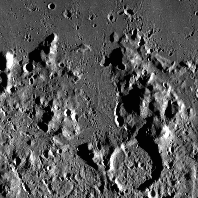 Sinus Gay-Lussac on the Moon (the name was recognized by International Astronomical Union in 1935-1961). Mosaic of photos by Lunar Reconnaissance Orbiter, made with Wide Angle Camera. Size of the image is 95×95 km, north is up.